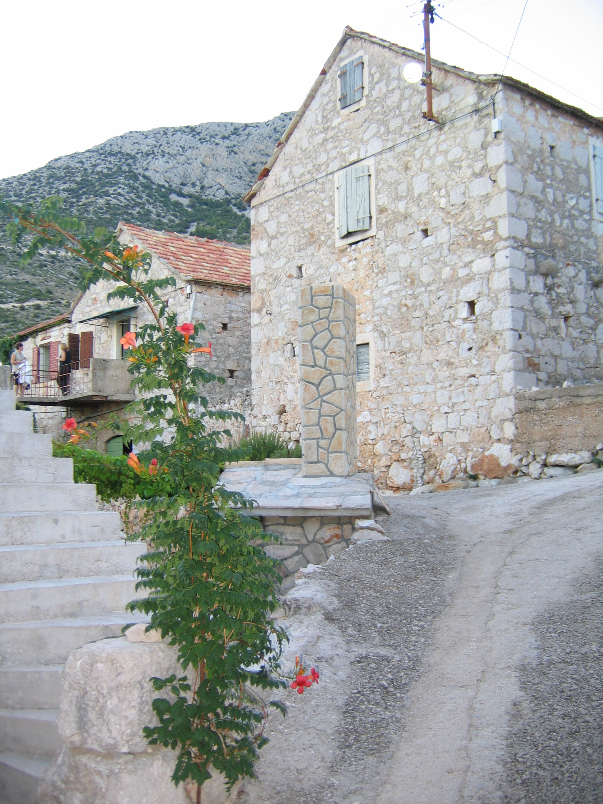 Ivan Dolac, Hvar